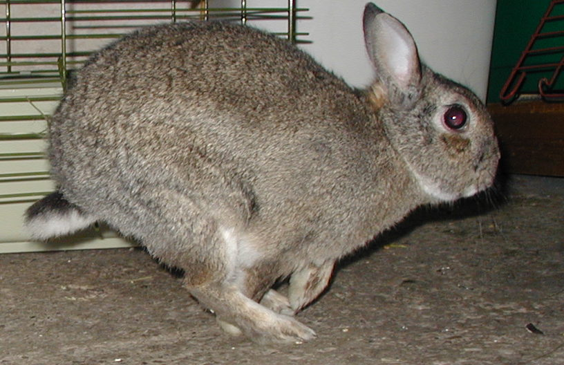 Rabbit named "Nicki". Picture taken and uploaded by Kessa Ligerro.